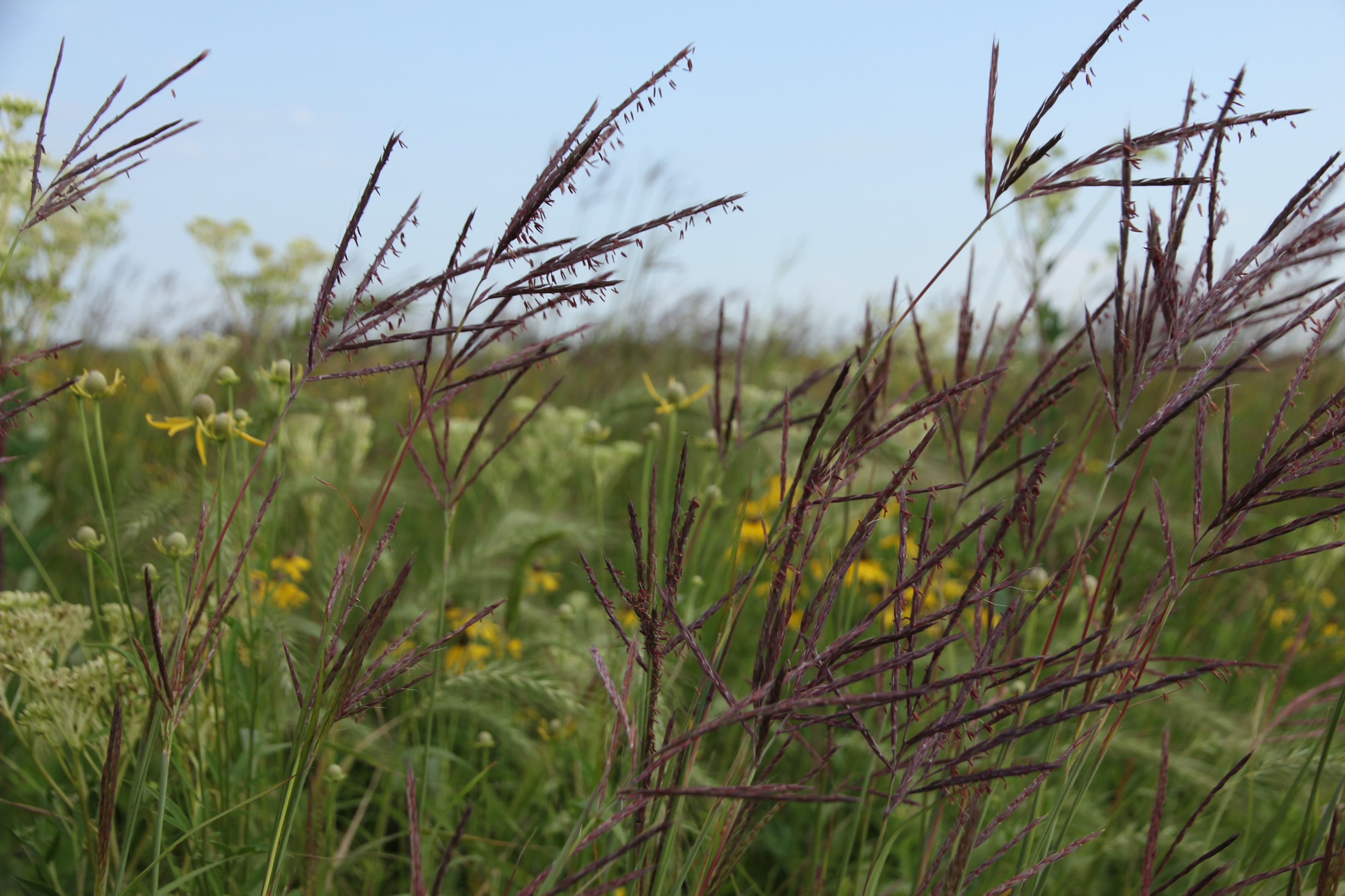 Flowering big bluestem (Andropogon gerardii) in a tallgrass prairie restoration.